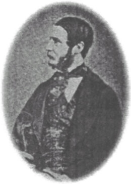 Colonel William Morris (1820-1853). Photograph (pre-1903) of original sketch c.1850.